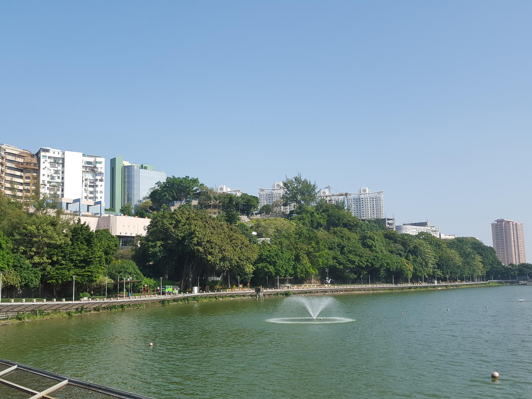 ZAPE Reservoir